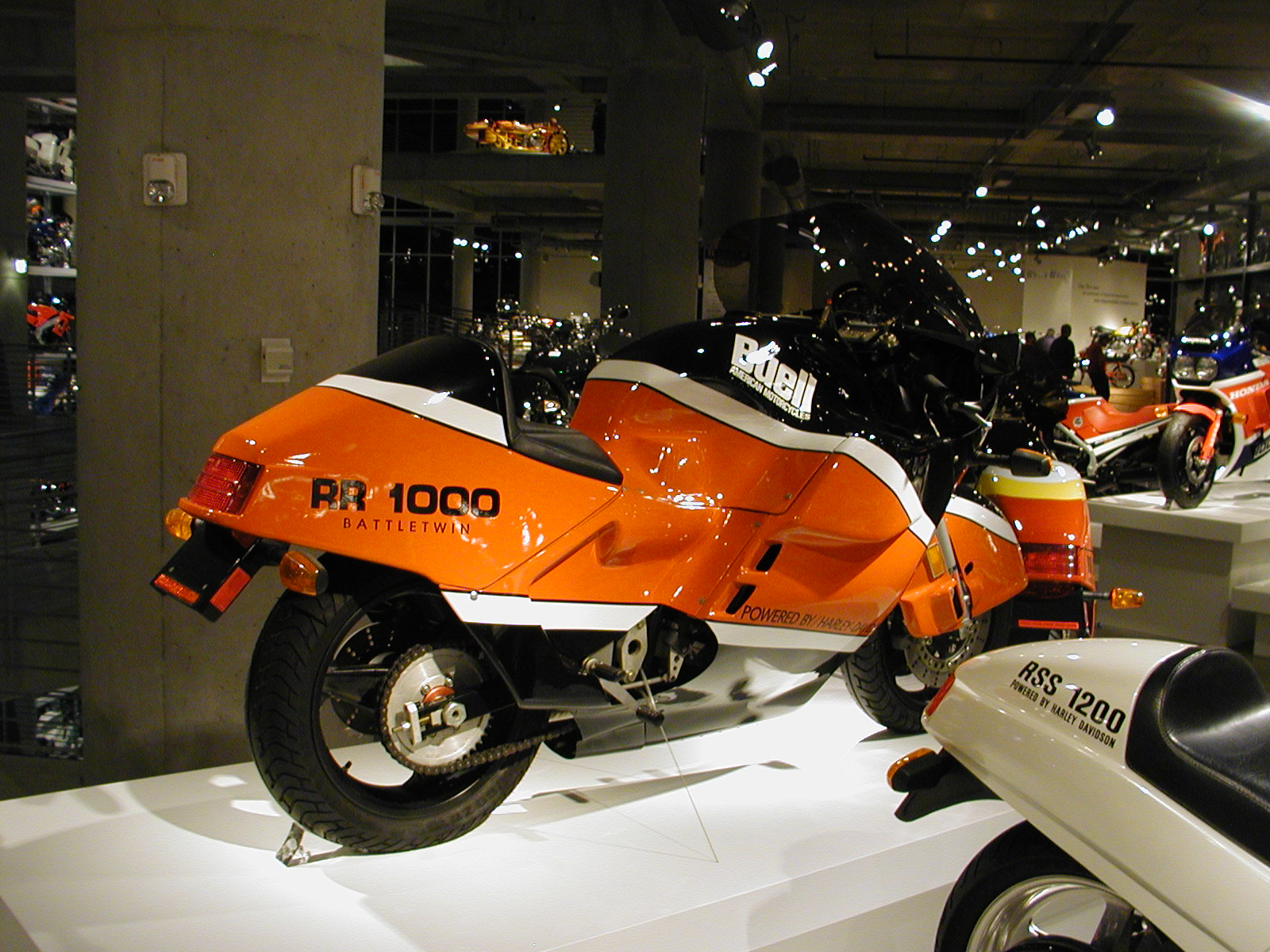 Barber Motorcycle Museum - Oct 22 2006 (107) Buell RR1000 Battletwin